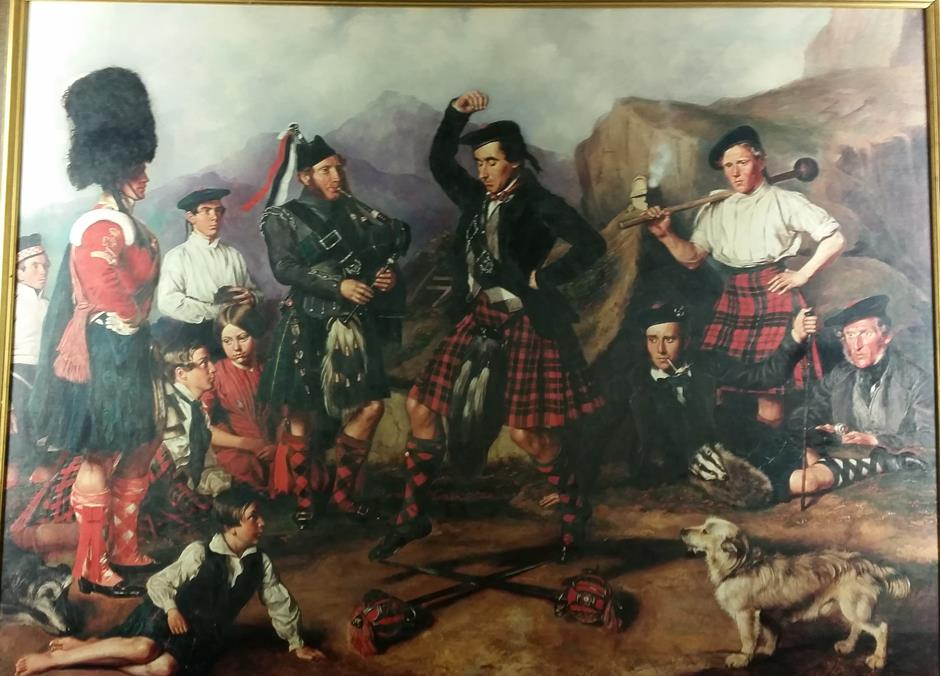 The Sword Dance, 93rd were camped at Chobham in England, 1853